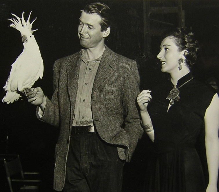 James Stewart and Valentina Cortese on the set of Malaya (1949) - publicity still cropped